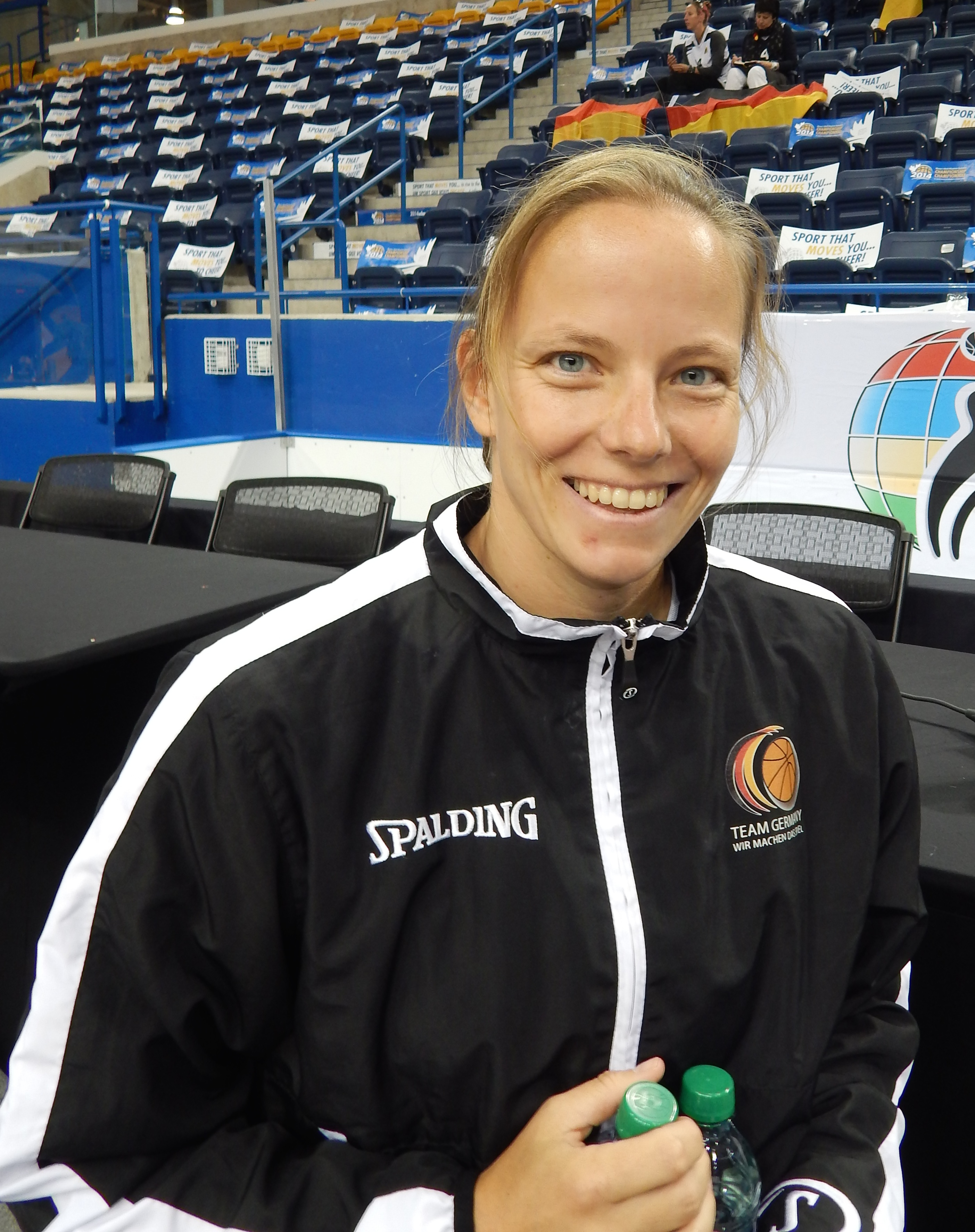 No 10 - Gesche Schünemann